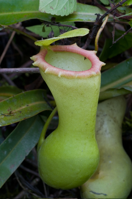 Nepenthes ventricosa photographed on Mount Sumigar, the type locality, Luzon (Alastair Robinson, June 2007) - upper pitcher.